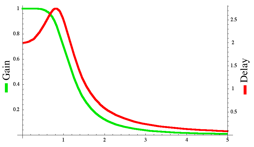 Gain (green) and delay (red) of a 3rd order Butterworth filter.